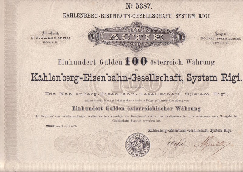 Stock share in 100 Austrian Gulden of the Kahlenberg-Eisenbahn-Gesellschaft, System Rigi, Vienna, Austria